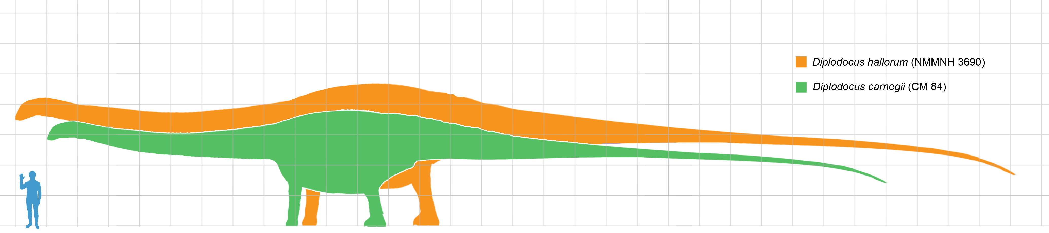 Sizes of of the sauropod dinosaurs Diplodocus carnegii (specimen CM 84, green) and Diplodocus hallorum (specimen NMMNH 3690, orange) compared with a human.